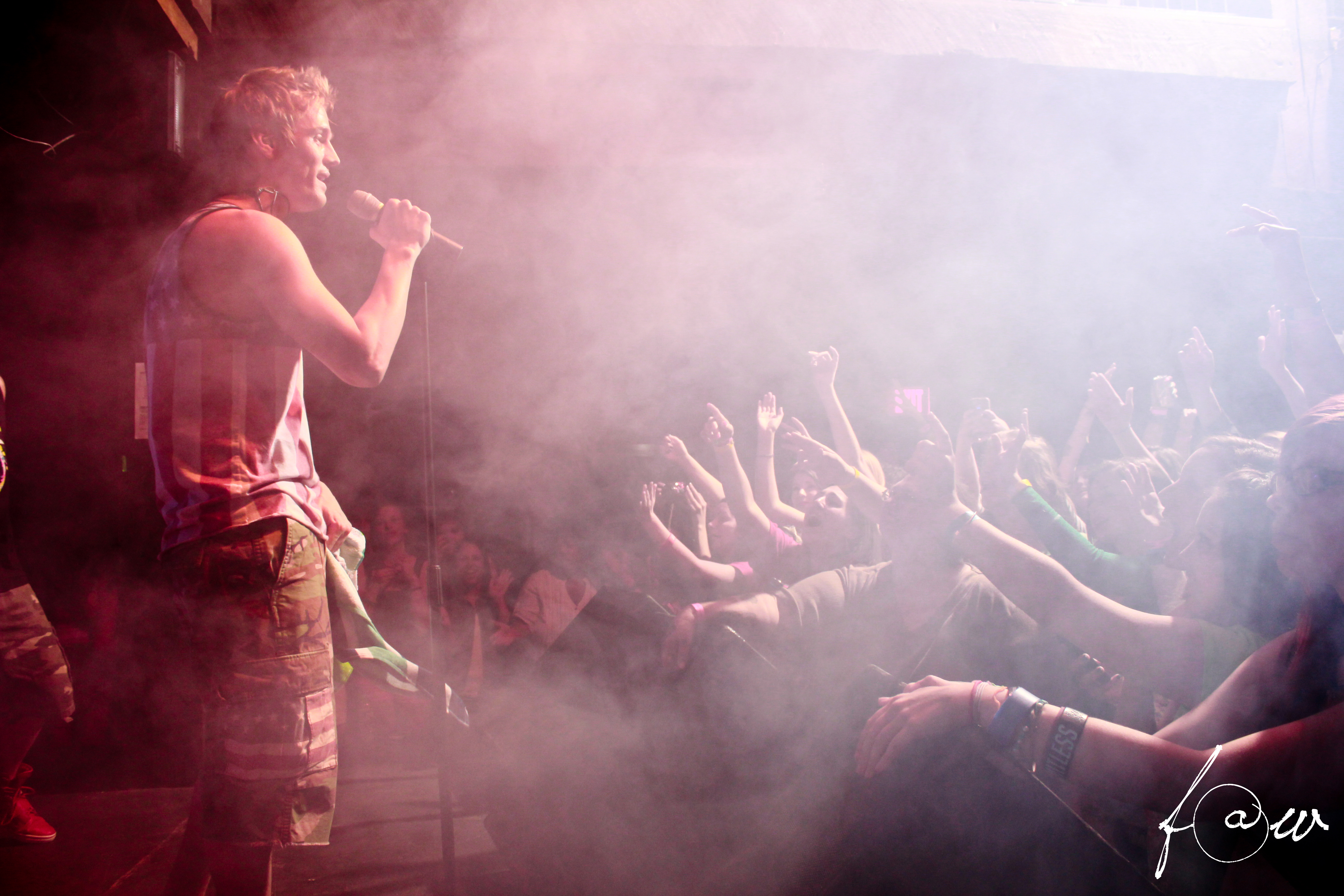 Aaron Carter performing in 2013